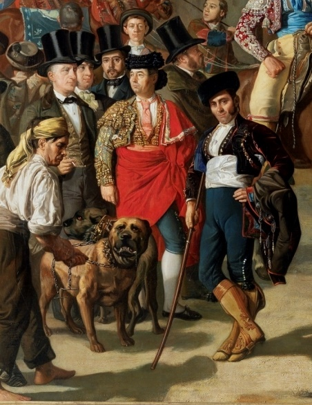 Detail from "Patio de la cuadra de caballos de la plaza de toros de Madrid, antes de una corrida" painting, 1853 by Manuel Castellano. Large mastiff-type dogs ou alaunt dogs before a bull-fighting in Spain.